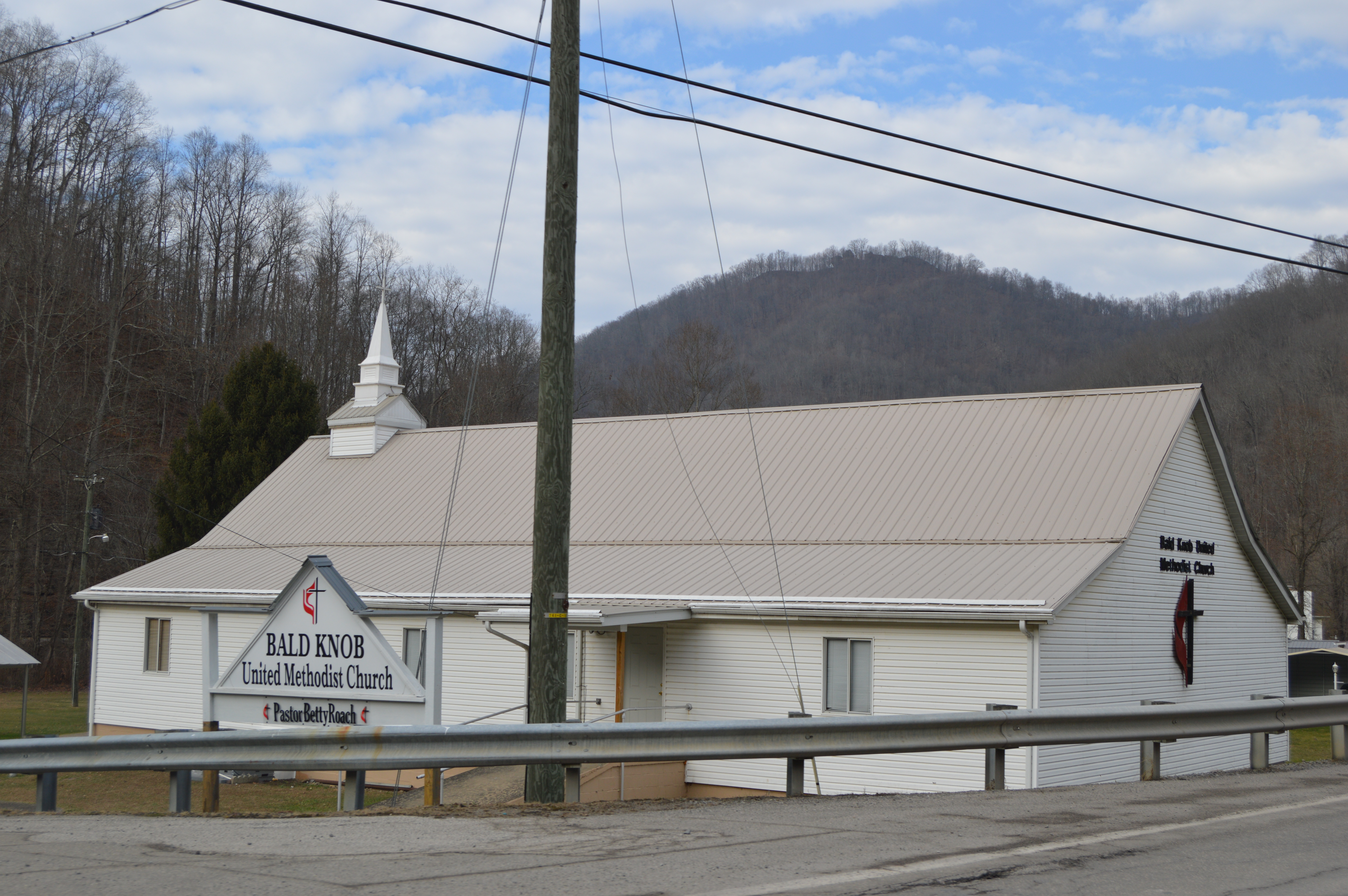 Rear and southern side of the Bald Knob United Methodist Church, located on West Virginia Route 85 at Bald Knob in Boone County, West Virginia, United States.